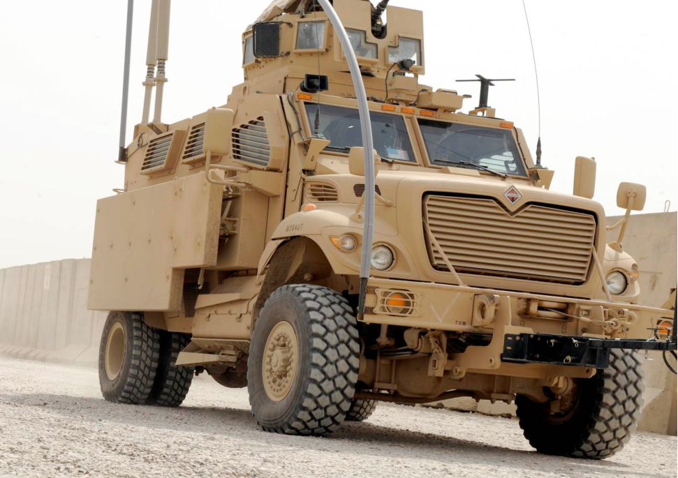 The Mine Resistant Ambush Protected Expedient Armor Program Add-on-Armor Kit for MRAP vehicles was developed to safeguard Soldiers against the extremely lethal threats of improvised explosive devices and explosively formed penetrators.